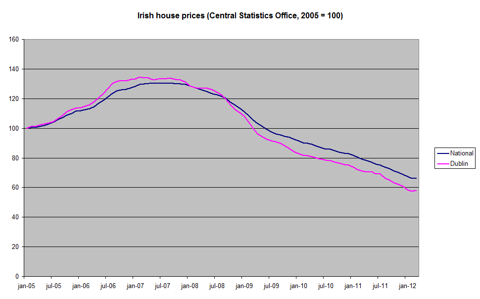 Development of Irish house prices,January 2005 = 100, showing National - all residential properties en Dublin - all residential properties. Source: Ireland Central Statistics Office, .